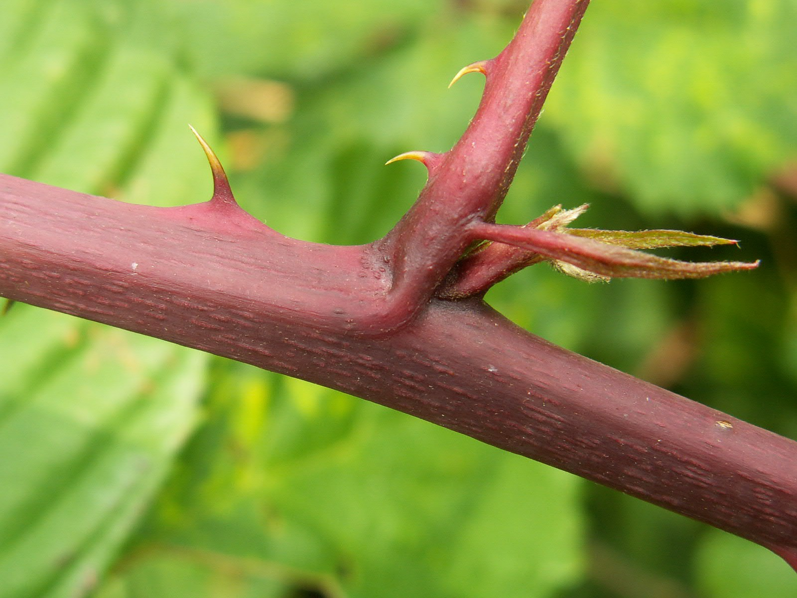 Stem, stipule, spines of Rubus plicatus. Goleniow, NW Poland